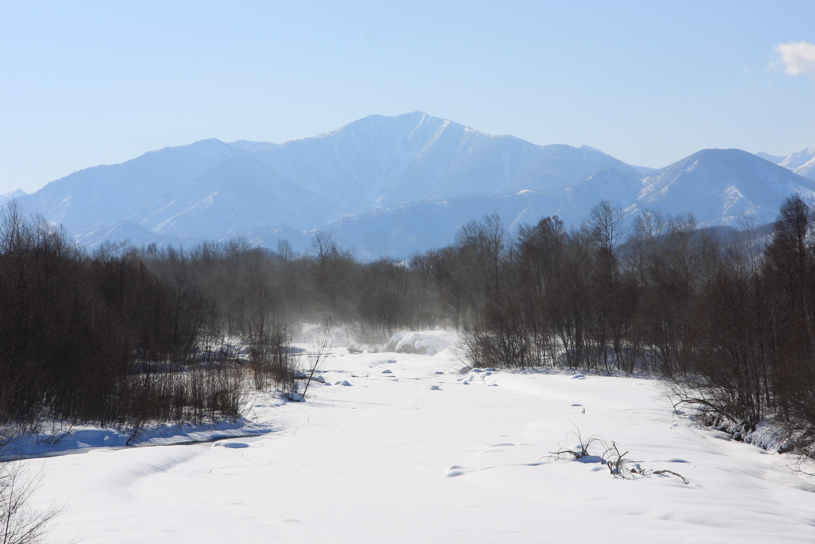 The Northeast side of Mount Tokachi-Poroshiri seen from Bisei river.